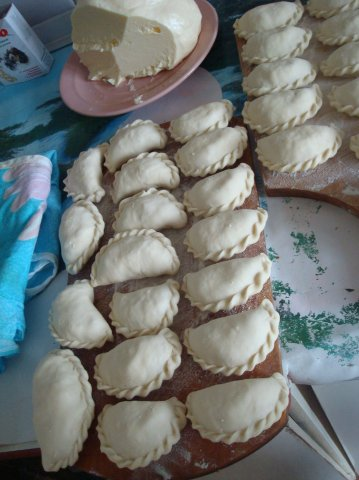 Podkogylyo, Mari national dumpling